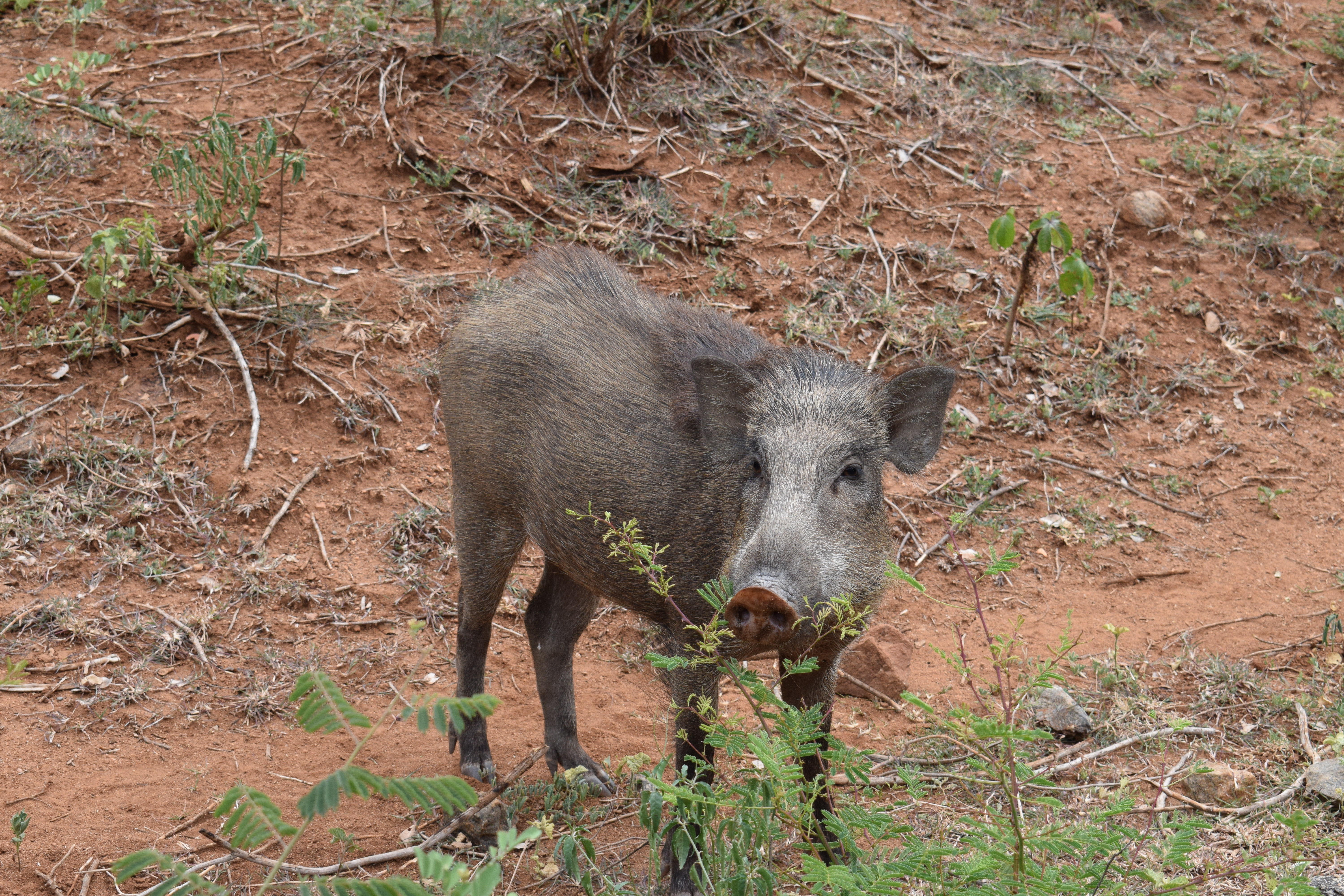 Photo taken on the way to muthathi in July 2017